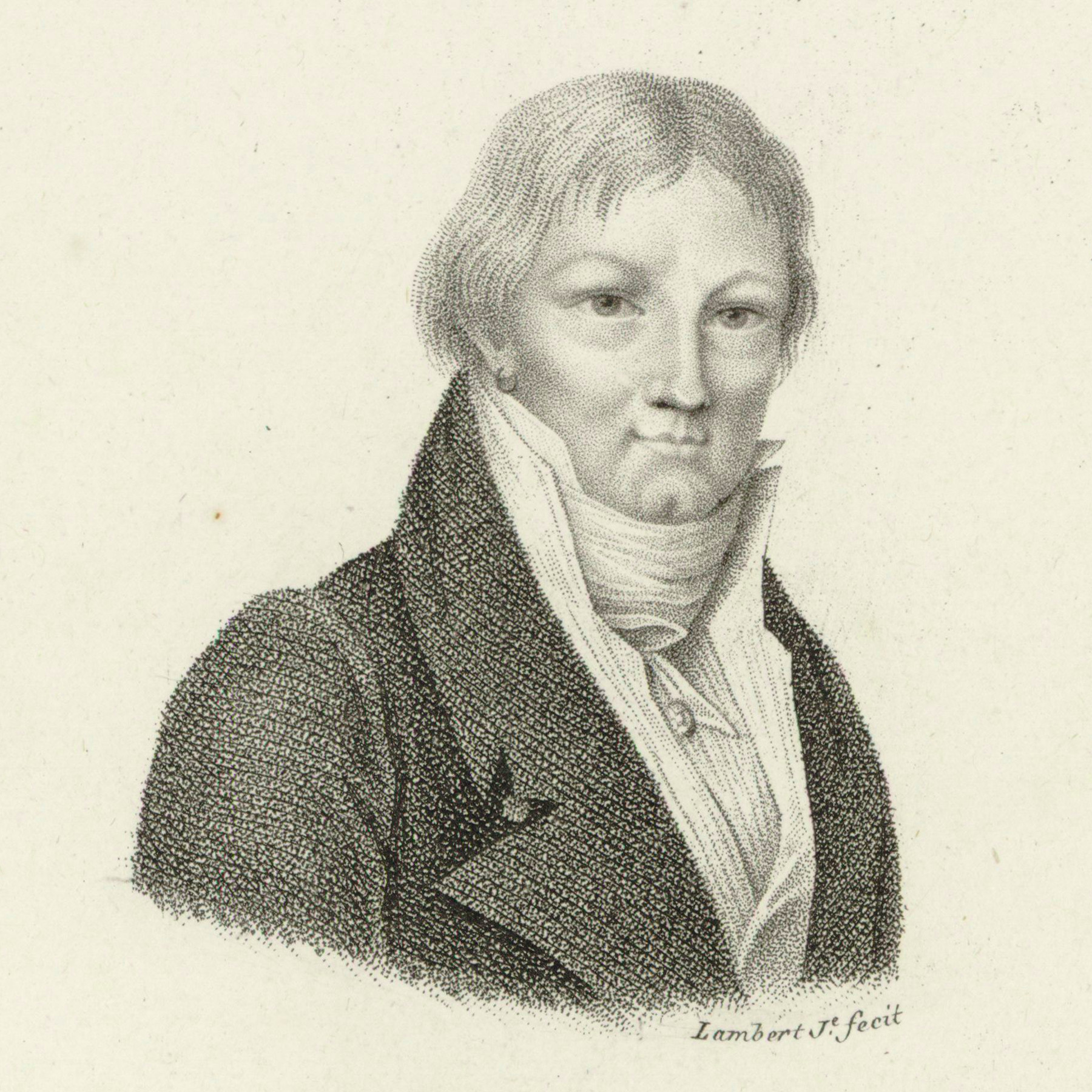 Portrait of Frédéric Blasius (1758-1829), a French violinist, clarinetist, conductor, and composer